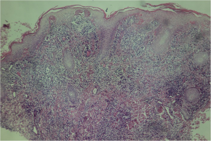 Biopsy of a yaws lesion of a 10-year-old boy from Cotabato Province. Low-power view; for high-power view, see File:Moderately dense infiltrate of plasma cells and lymphocytes in the papillary dermis. See File:Large, “moist cauliflower” papillomas on left axilla.jpg for macroscopic view of the yaws lesion from which the biopsy was taken. From original CC-BY report: "Histopathologic findings of yaws papilloma A skin punch biopsy of the papilloma on the left axilla of the index case (Case 1) was performed by the principal investigator in the Rural Health Center 2 weeks post-treatment. The specimen was processed in the Philippine General Hospital and read by a dermatopathologist of the Division of Dermatology. The biopsy showed psoriasiform epidermal hyperplasia and band-like lymphocytic infiltrates in the papillary dermis, with thickening of the basement membrane. There were moderately dense infiltrates of plasma cells and lymphocytes in the papillary dermis. The histopathologic diagnosis was lichenoid psoriasiform dermatitis with plasma cells. These findings were consistent with yaws "